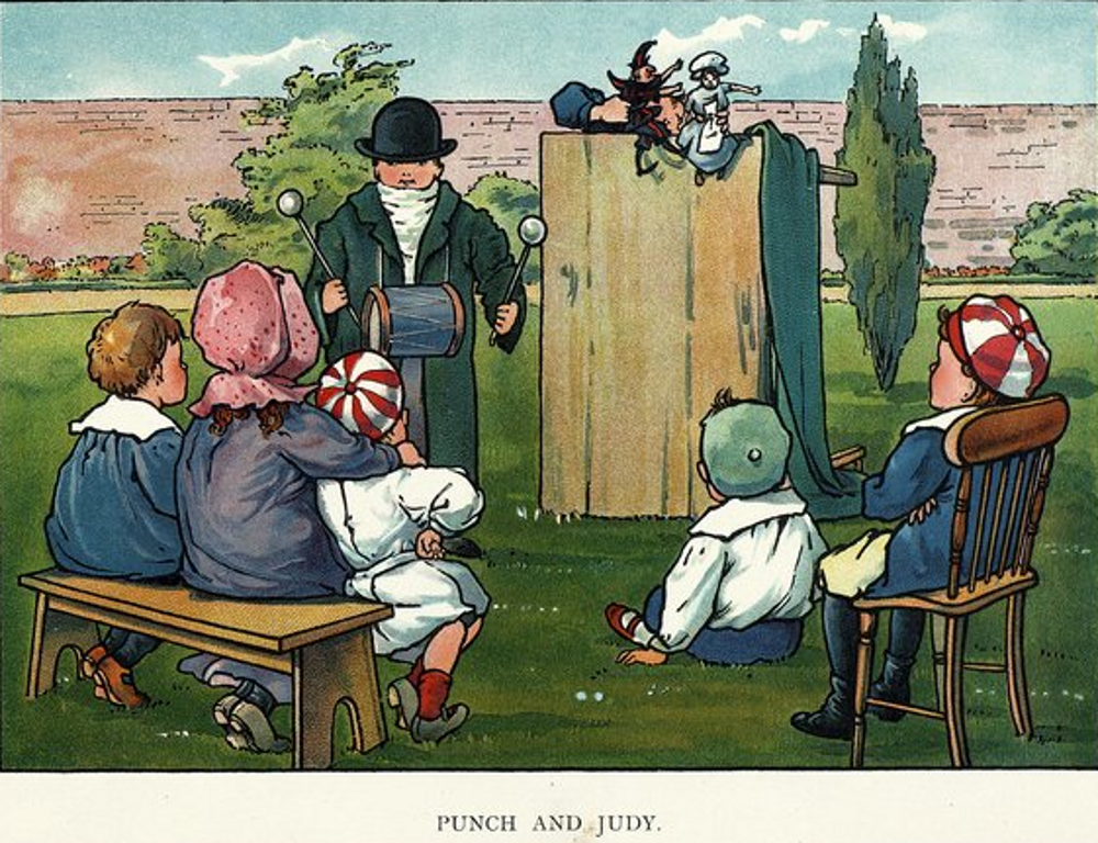 Let's pretend, verses by G. C. Bingham (1859-1913), illustrated by E. A. Cubitt, 1859.